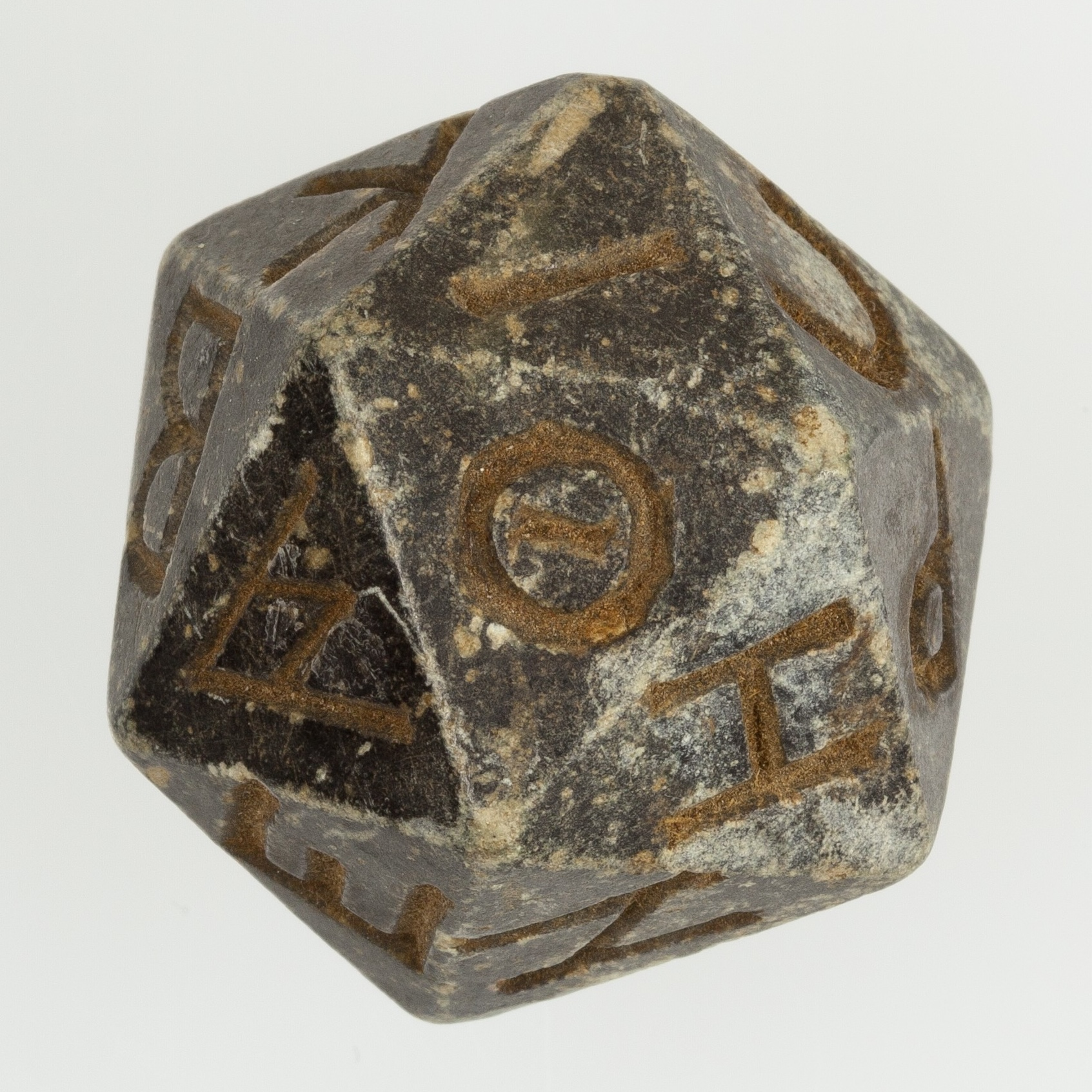 Die, icosohedron